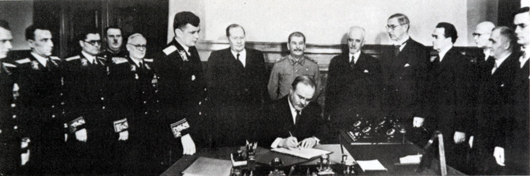 The Agreement of Friendship, Cooperation, and Mutual Assistance, also known as the YYA Treaty, 6.4.1948 in Moscow. The lower image is retouched by Soviet officials during the period of Stalinism.